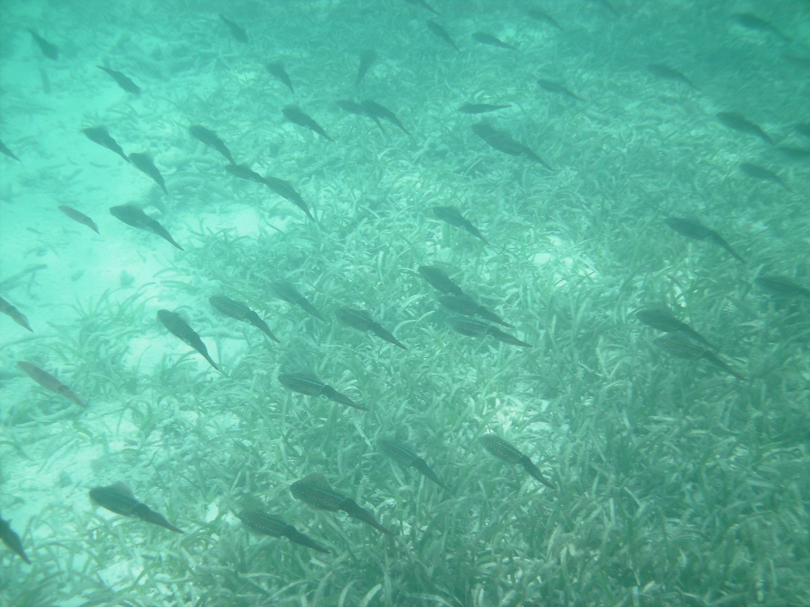 A school of Caribbean Reef Squid, Dry Tortugas National Park, Florida. June 29, 2010.